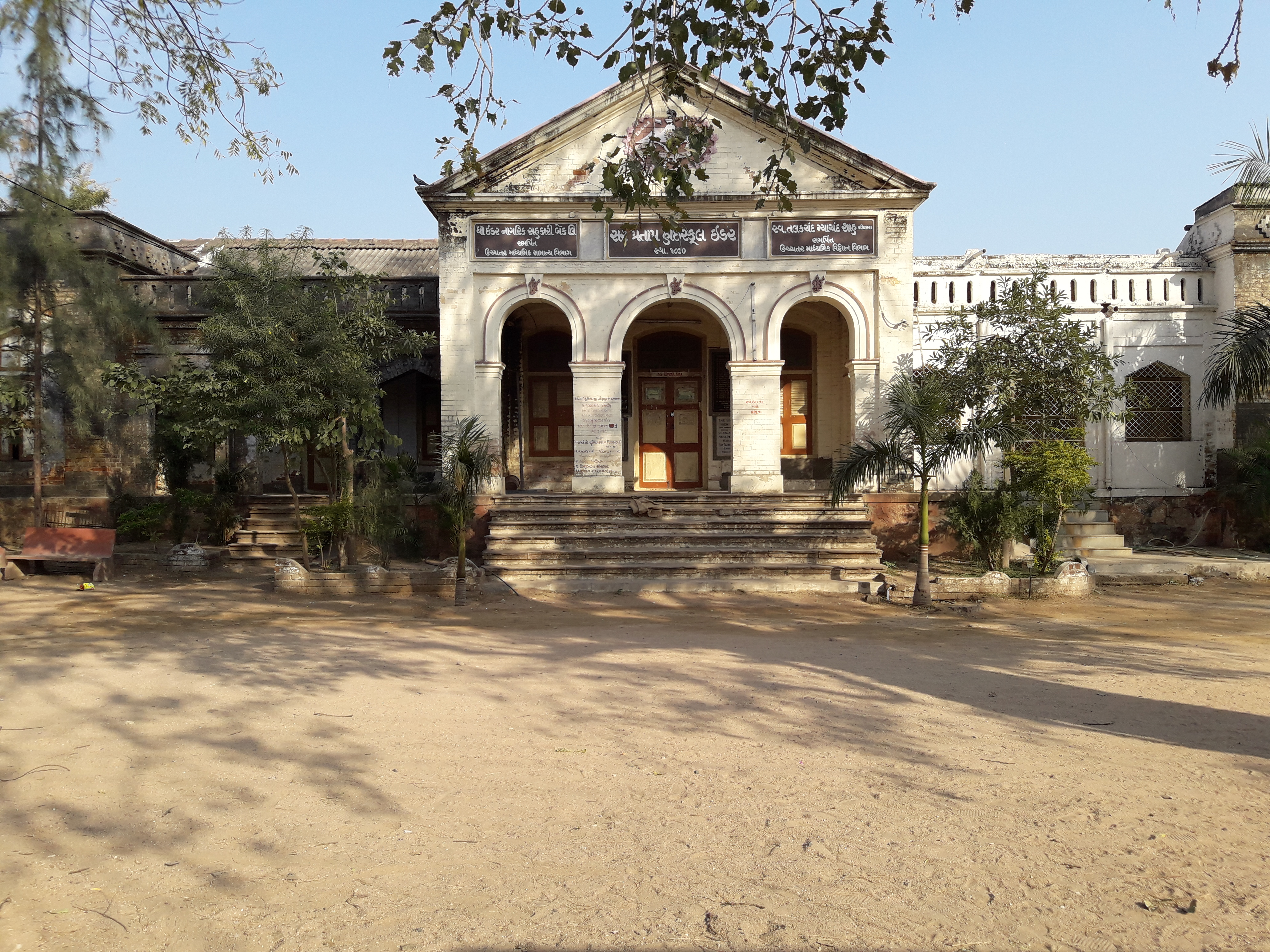 Sir Pratap High School at Idar, Gujarat, India; founded in 1890.